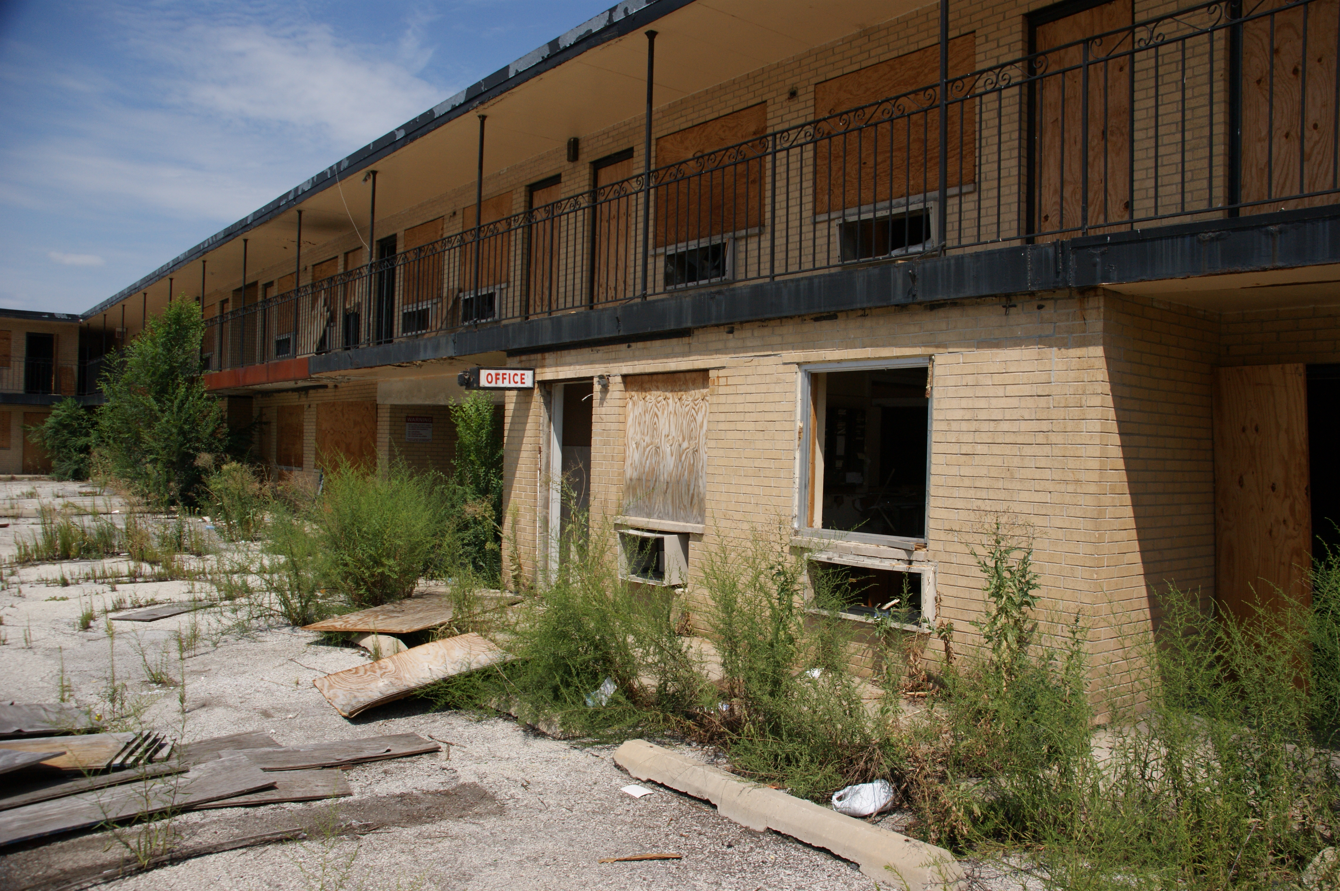 Grand West Courts, Illinois, United States.